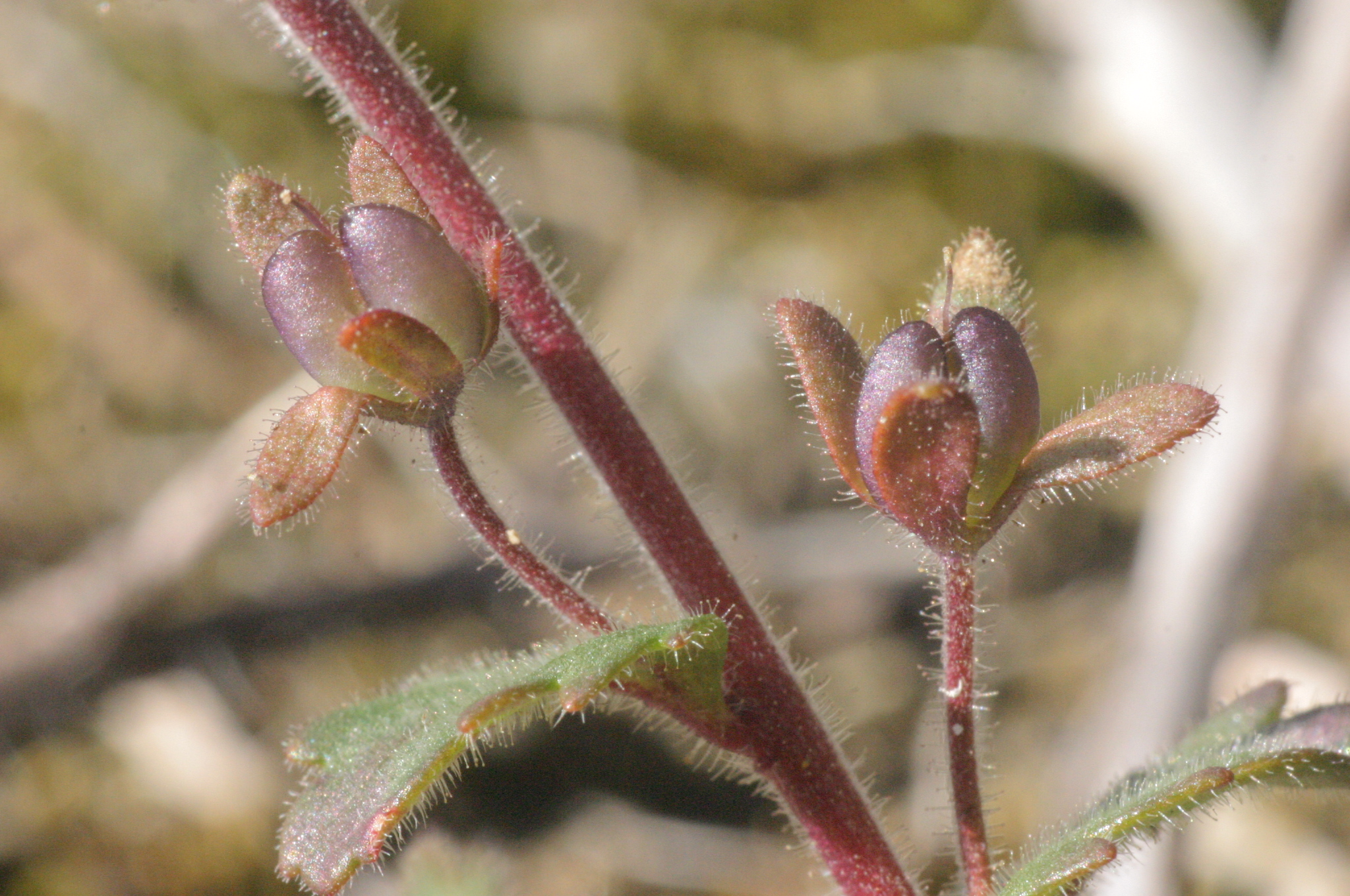 Veronica praecox